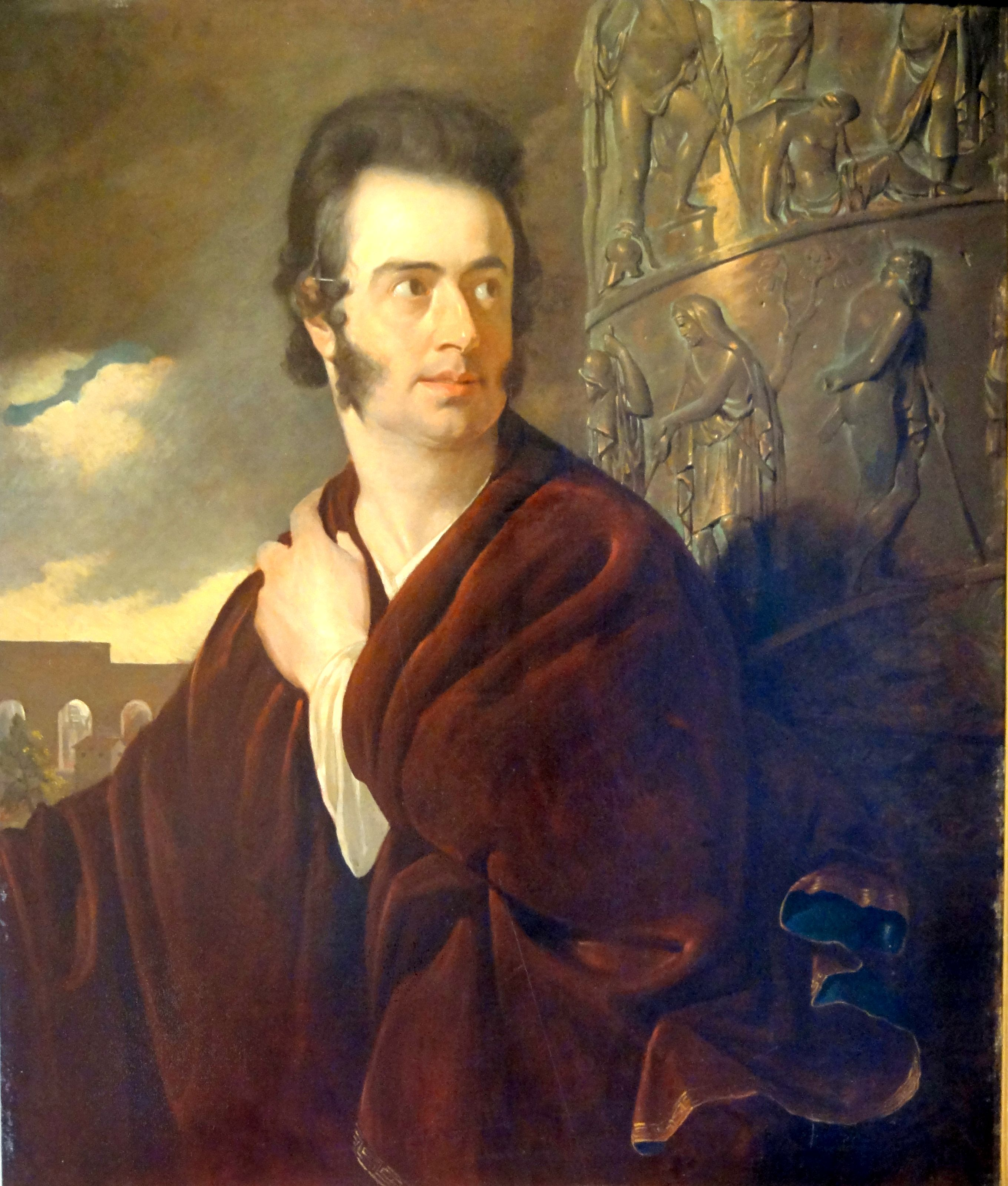 Portrait of Lord Byron.